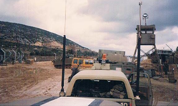 כניסה ללבנון ינואר 1993 מכיוון קיבוץ זרעית